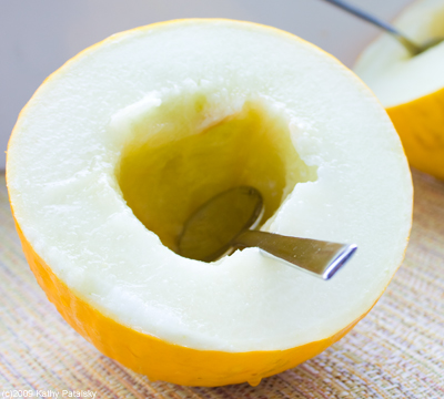 Canary melon is a large, bright-yellow melon with a pale green to white inner flesh.